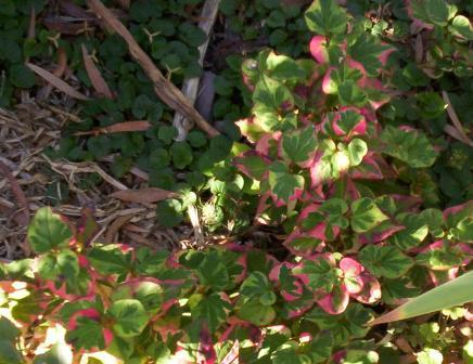 A picture of a cultivated specie of Houttuynia, Houttuynia cordata 'Chameleon'.